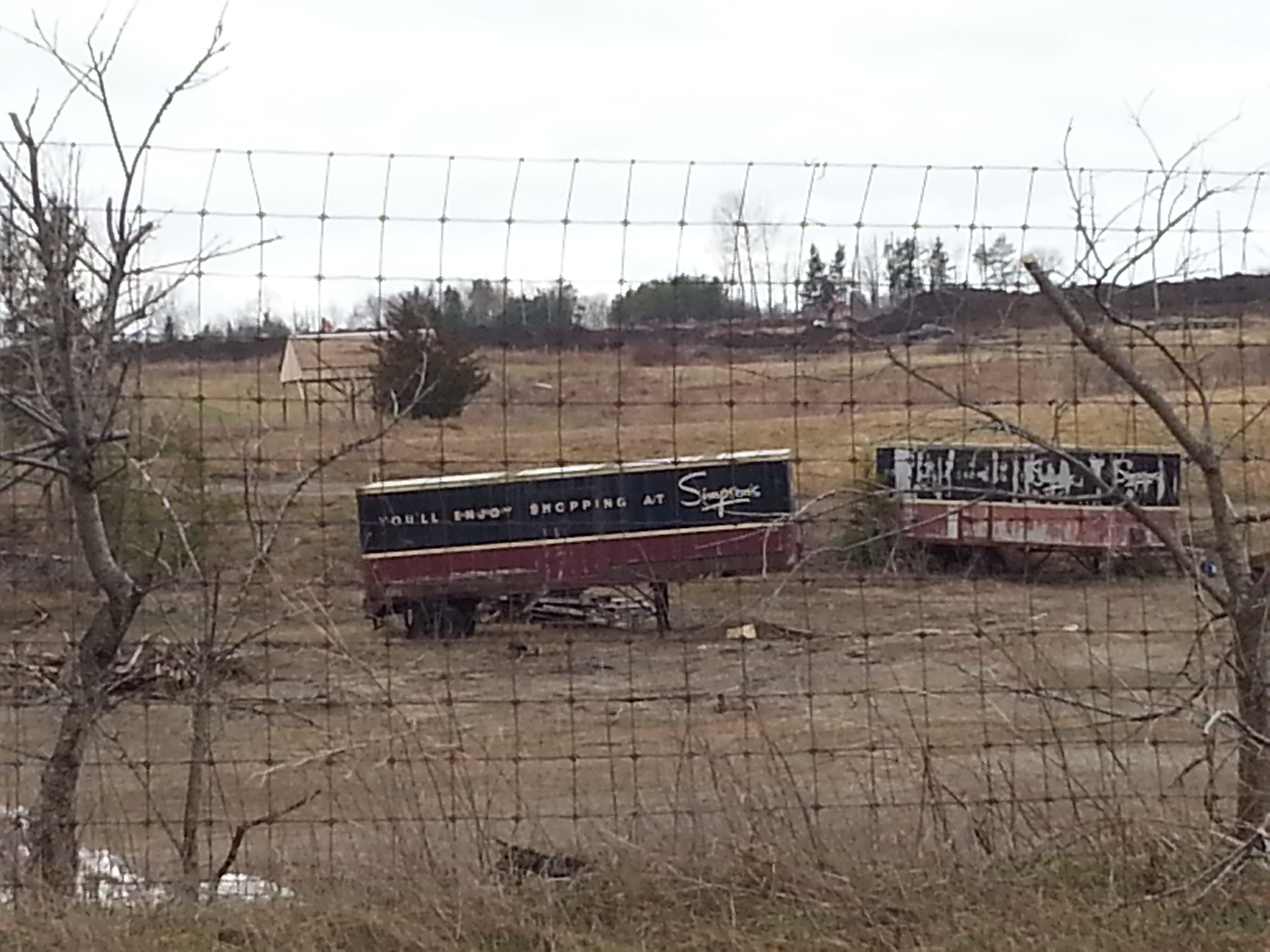 Old Simpson Department Store trailers in a farm lot outside Whitby, Ontario